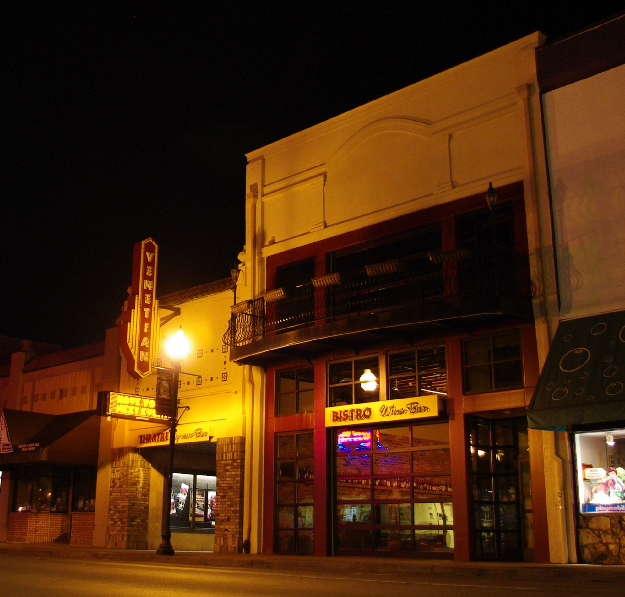 The Venetian Theatre in Downtown Hillsboro, Oregon.